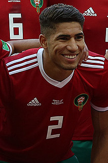 Iran-Morocco match, 2018 FIFA World Cup